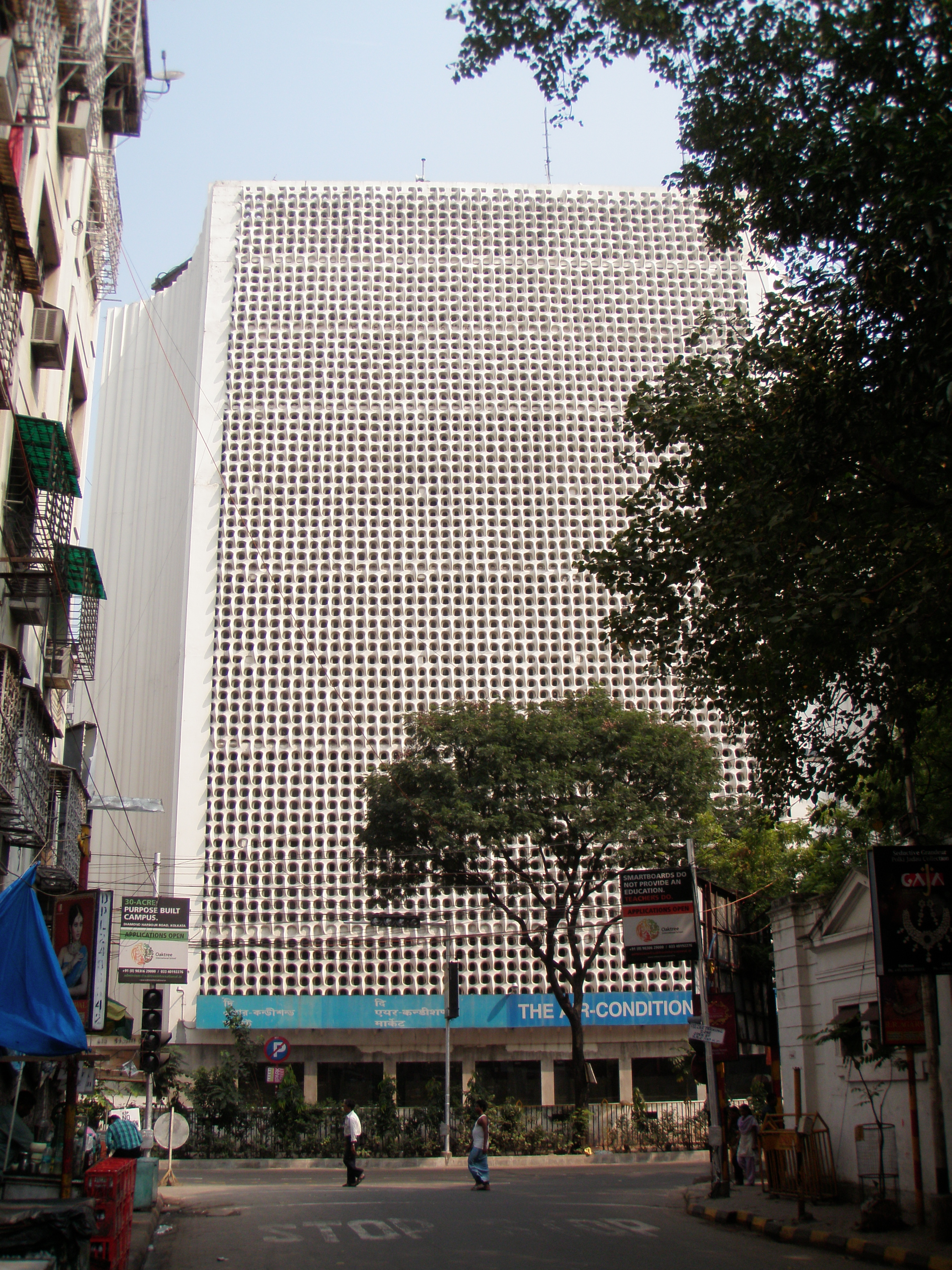 This media file is uploaded with India loves Wikipedia event. OLYMPUS DIGITAL CAMERA